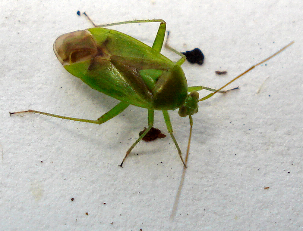 Neolygus viridis On: Please see photo Location: Lincoln City Site: Boultham Park